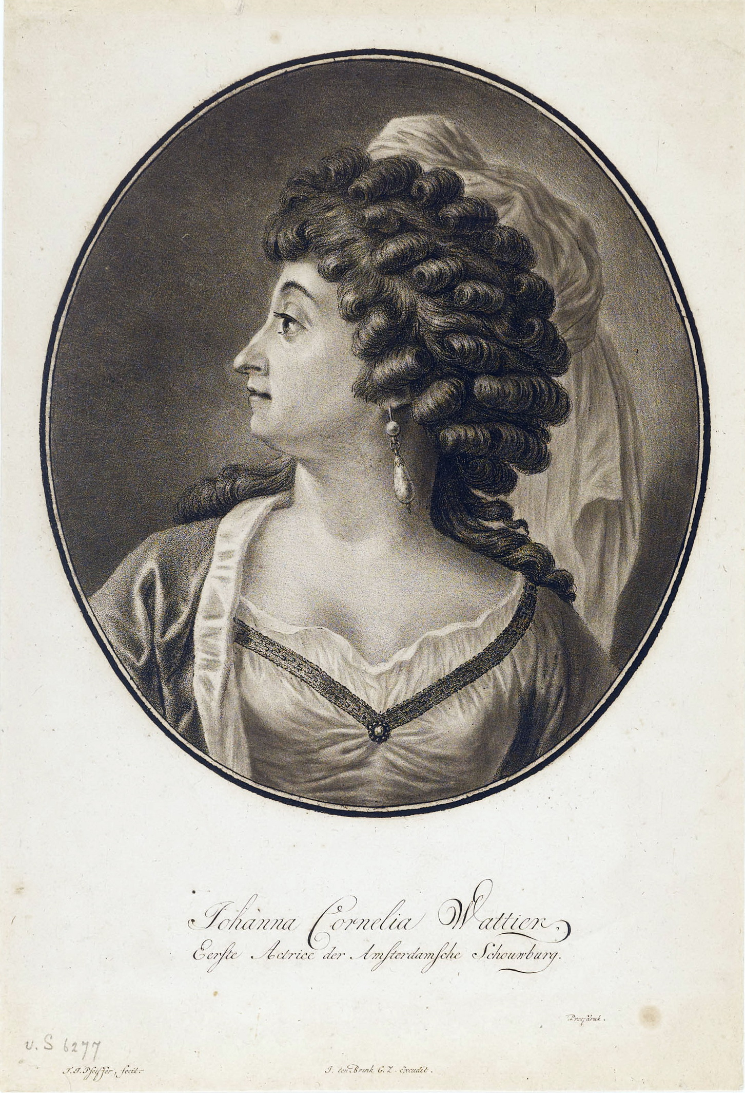 Portrait of the Dutch actress Johanna Cornelia Wattier (1762-1827) by François Joseph Pfeiffer jr., 1780.